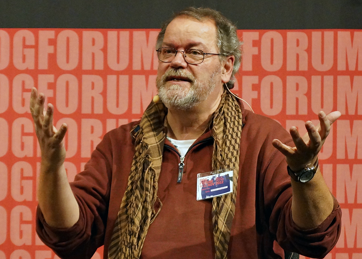 Steffen Jensen - Danish journalist and writer at the Copenhagen Book Fair "BogForum 2012", Copenhagen, Denmark